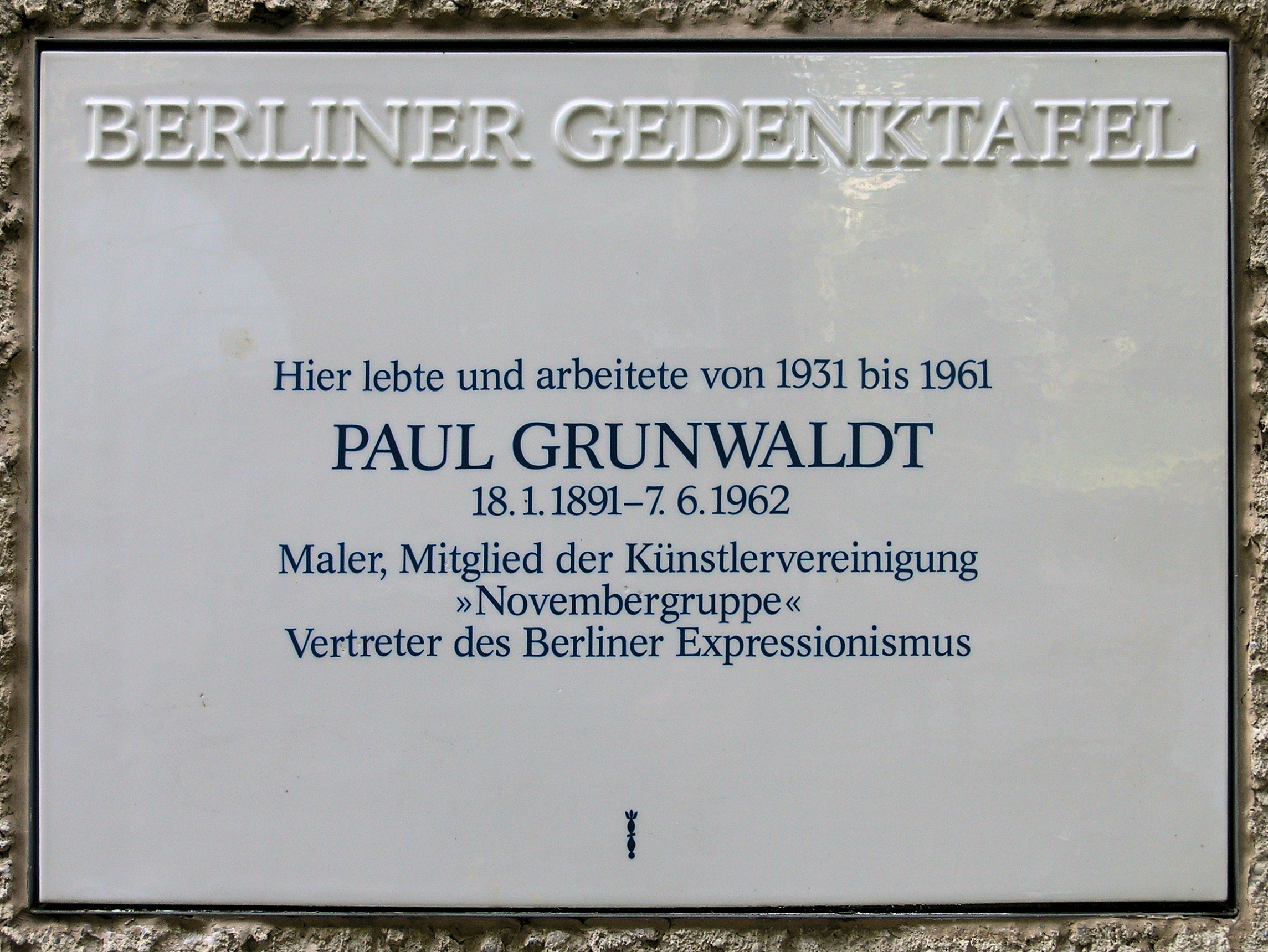 Berlin memorial plaque, Paul Grunwaldt, Raschdorffstraße 82, Berlin-Reinickendorf, Germany